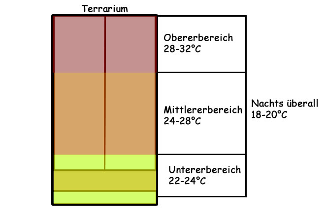 Klima